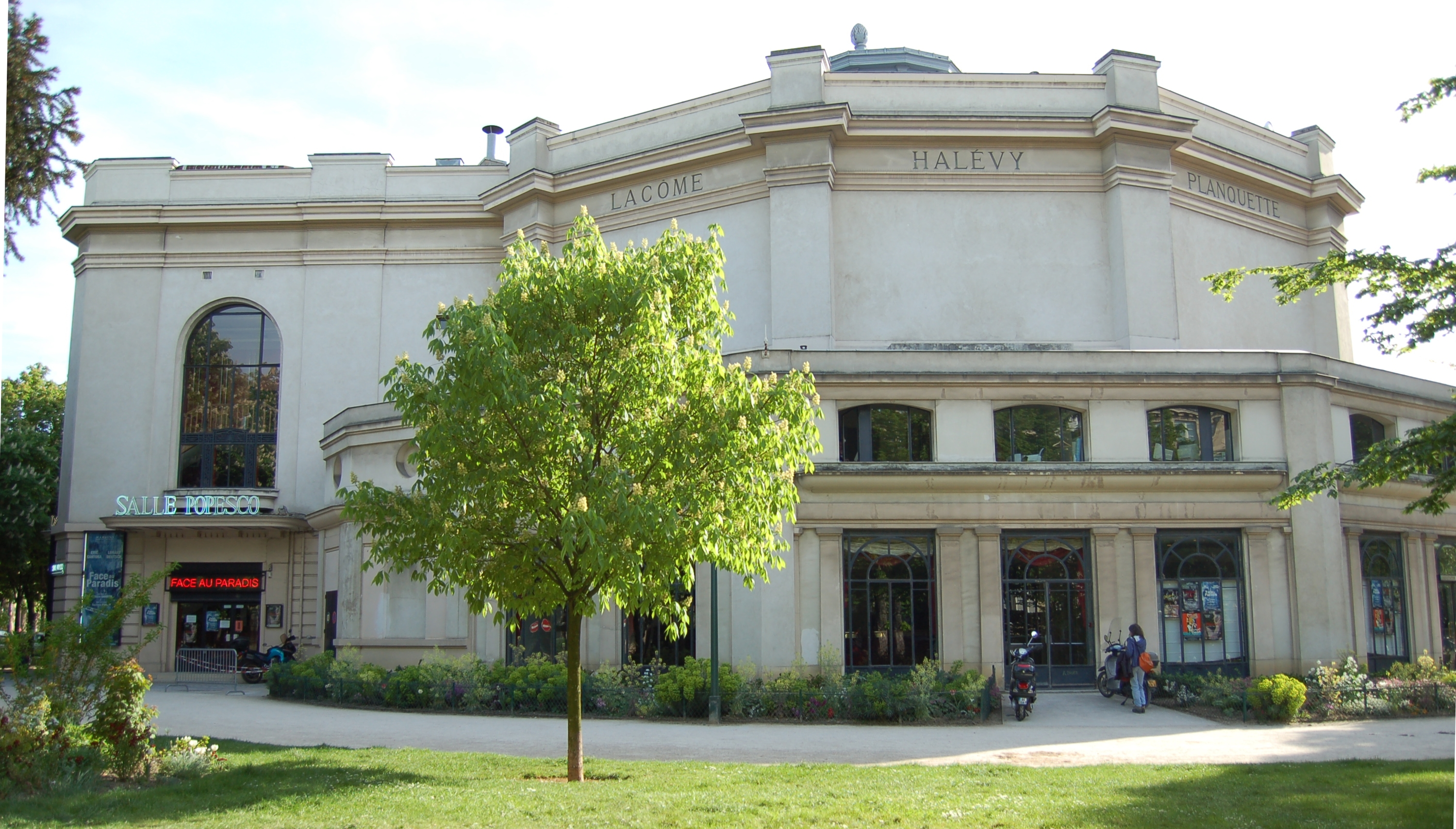 Théâtre Marigny - Popesco entrance - Champs Elysées - Paris - France